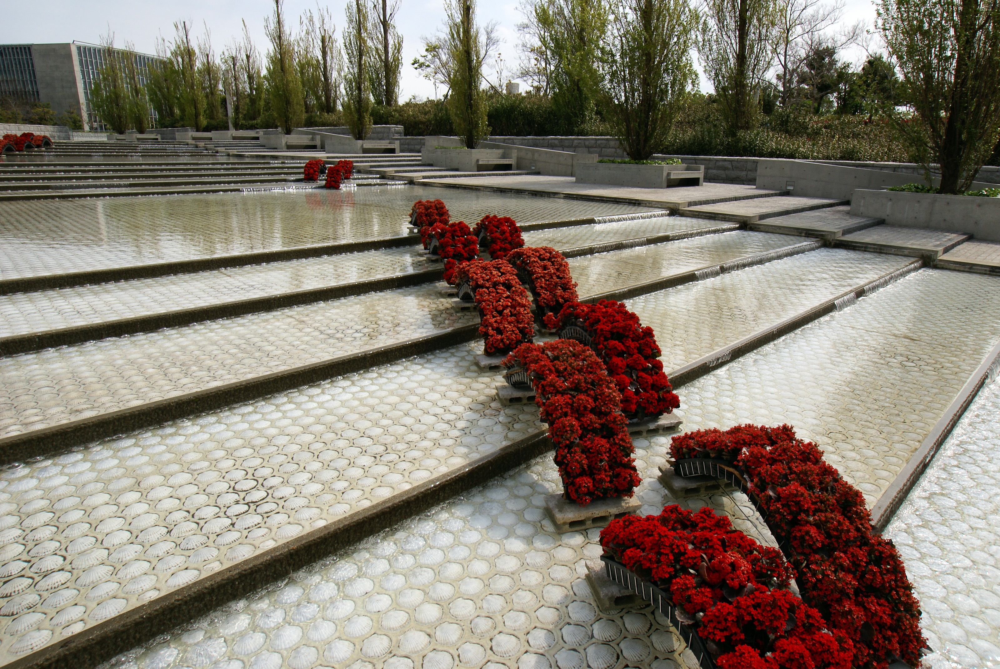 Shell Beach of Awaji Yumebutai in Awaji, Hyogo prefecture, Japan